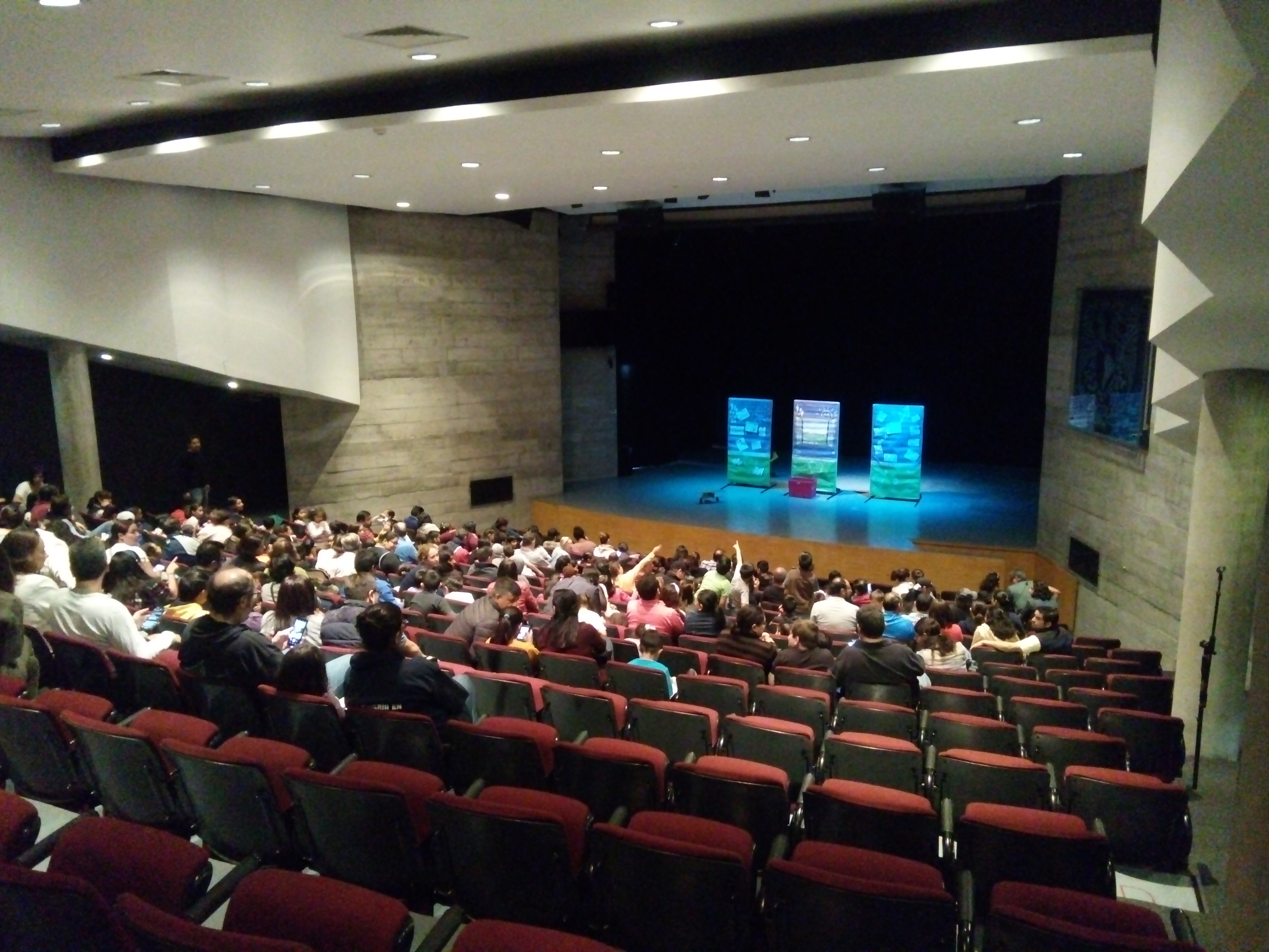 Dr. Flavio Mena Theatre, at the Cultural and Academic Centre, National Autonomous University of Mexico campus Juriquilla.